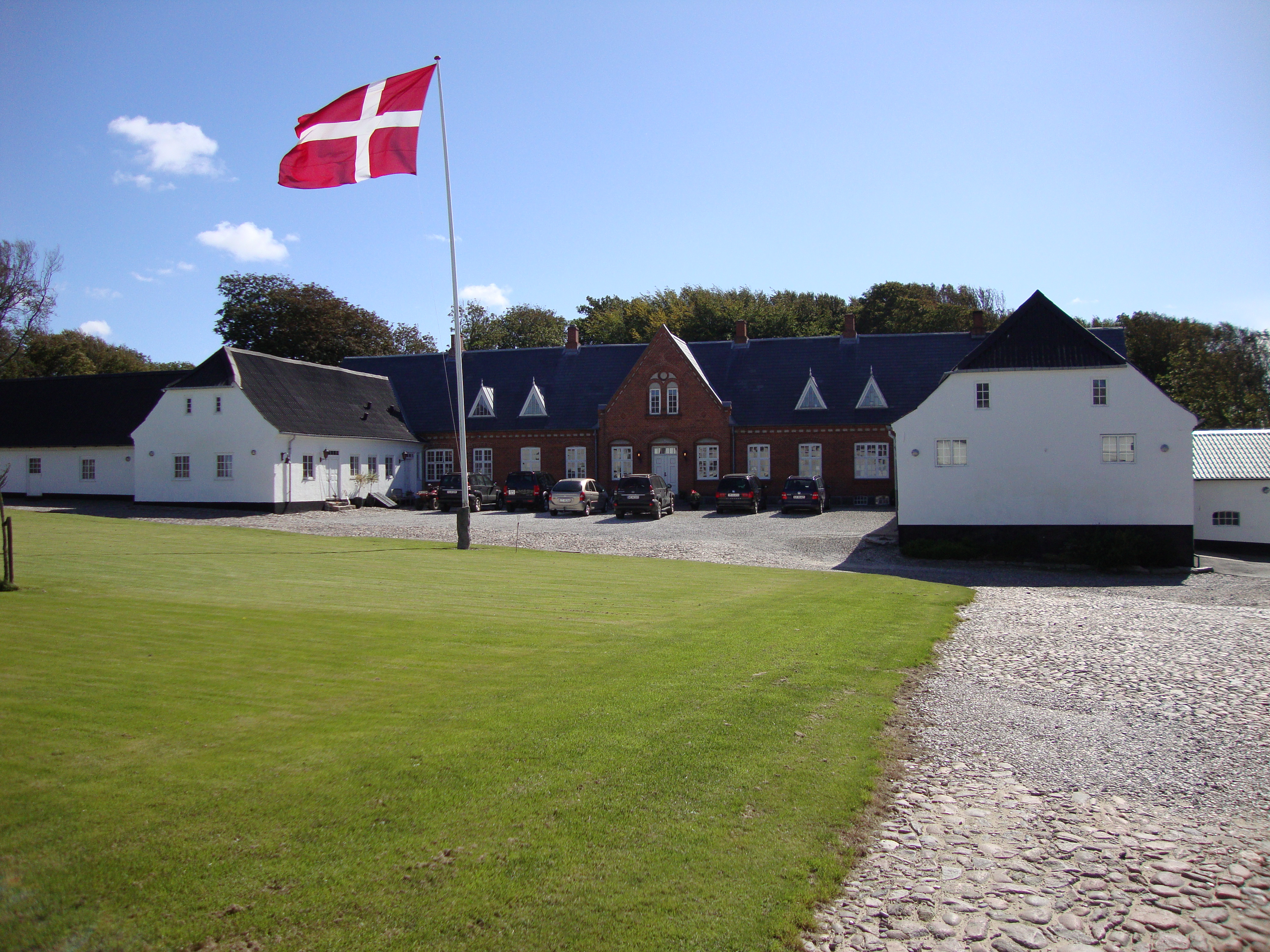 Asdal is a manor in Denmark, Vendsyssel